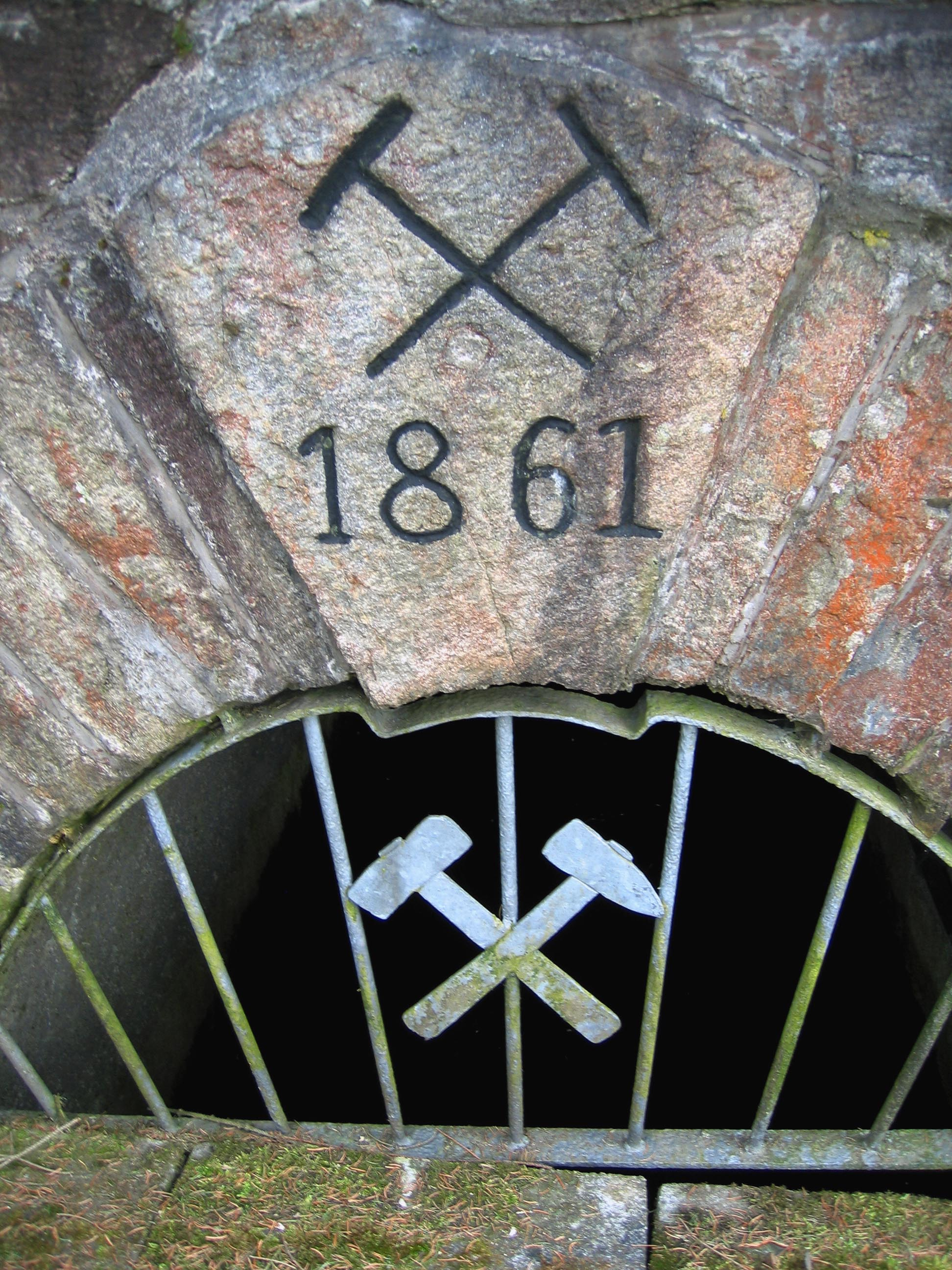 Cämmerswalde - Mundloch des Kunstgrabens im Niederdorf